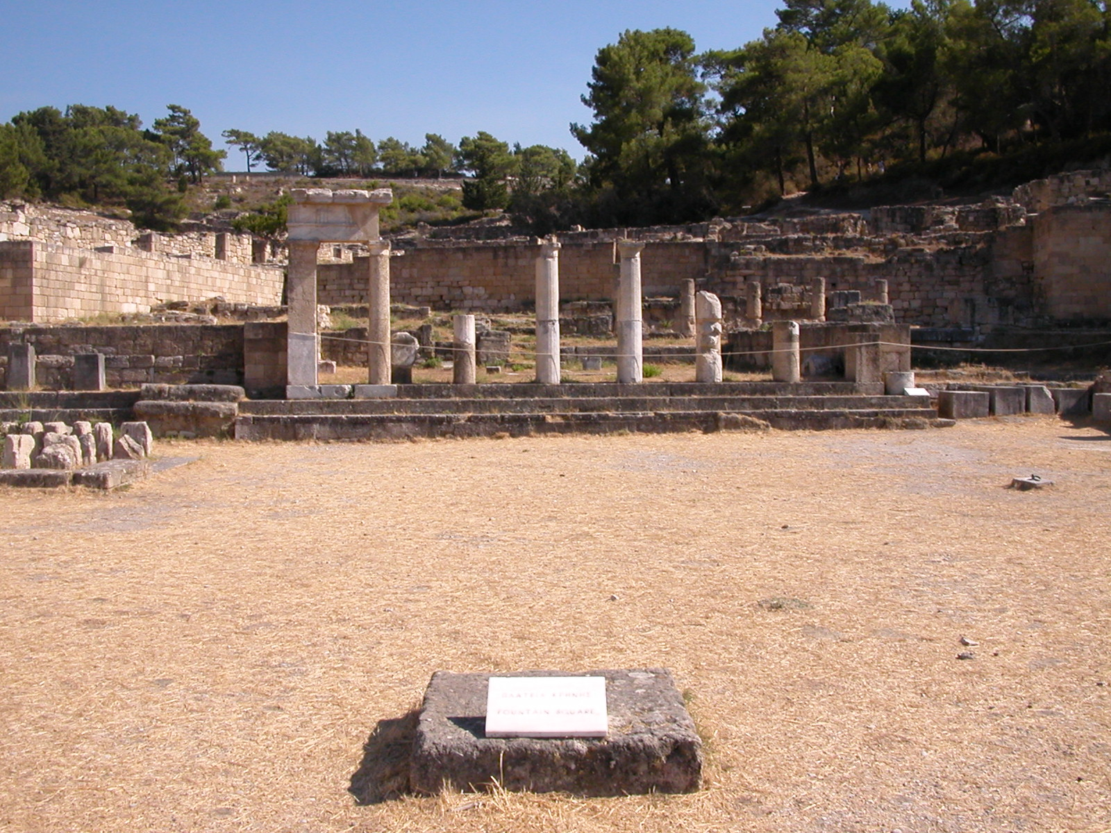 Isle of Rhodes - Kameiros - Fountain Square